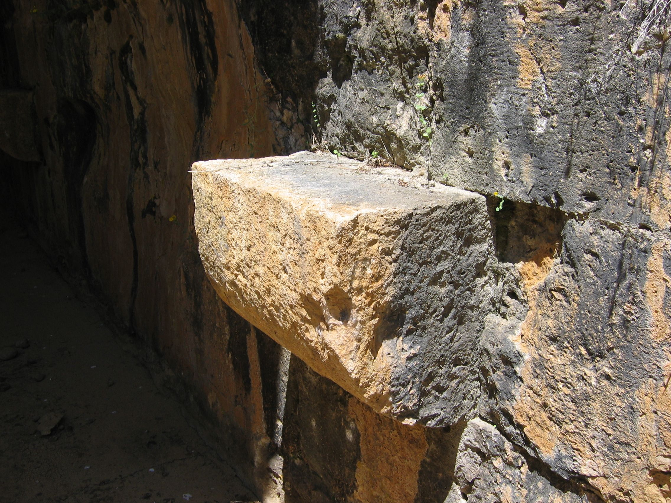 Corbel of the Aqueduct of Abánades. This structure allow Canal of Castile to pass by Valdavia river. Near Osorno (Palencia, Castile and León).